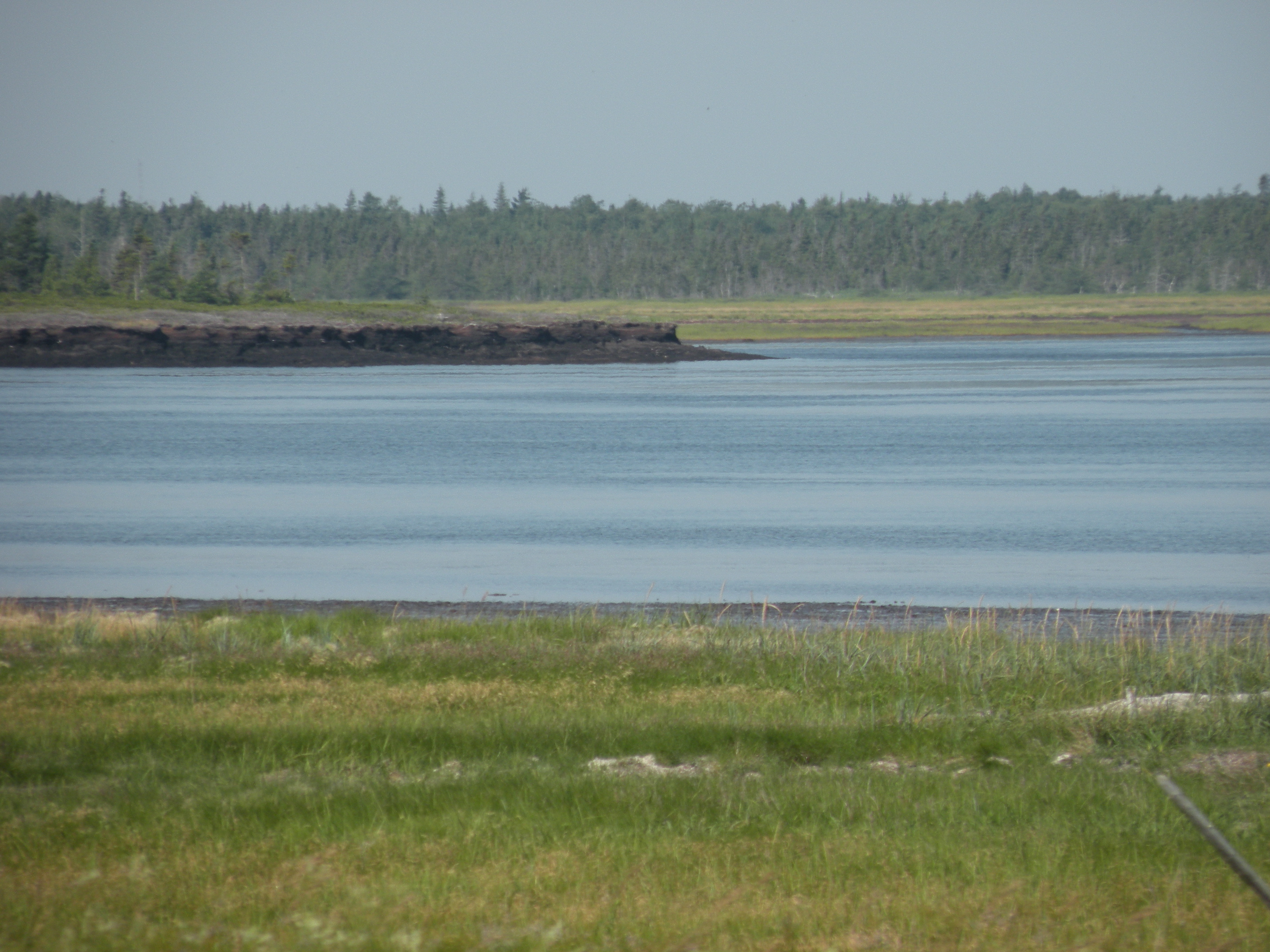 The peat moss cliffs in Saint-Simon, New Brunswick.